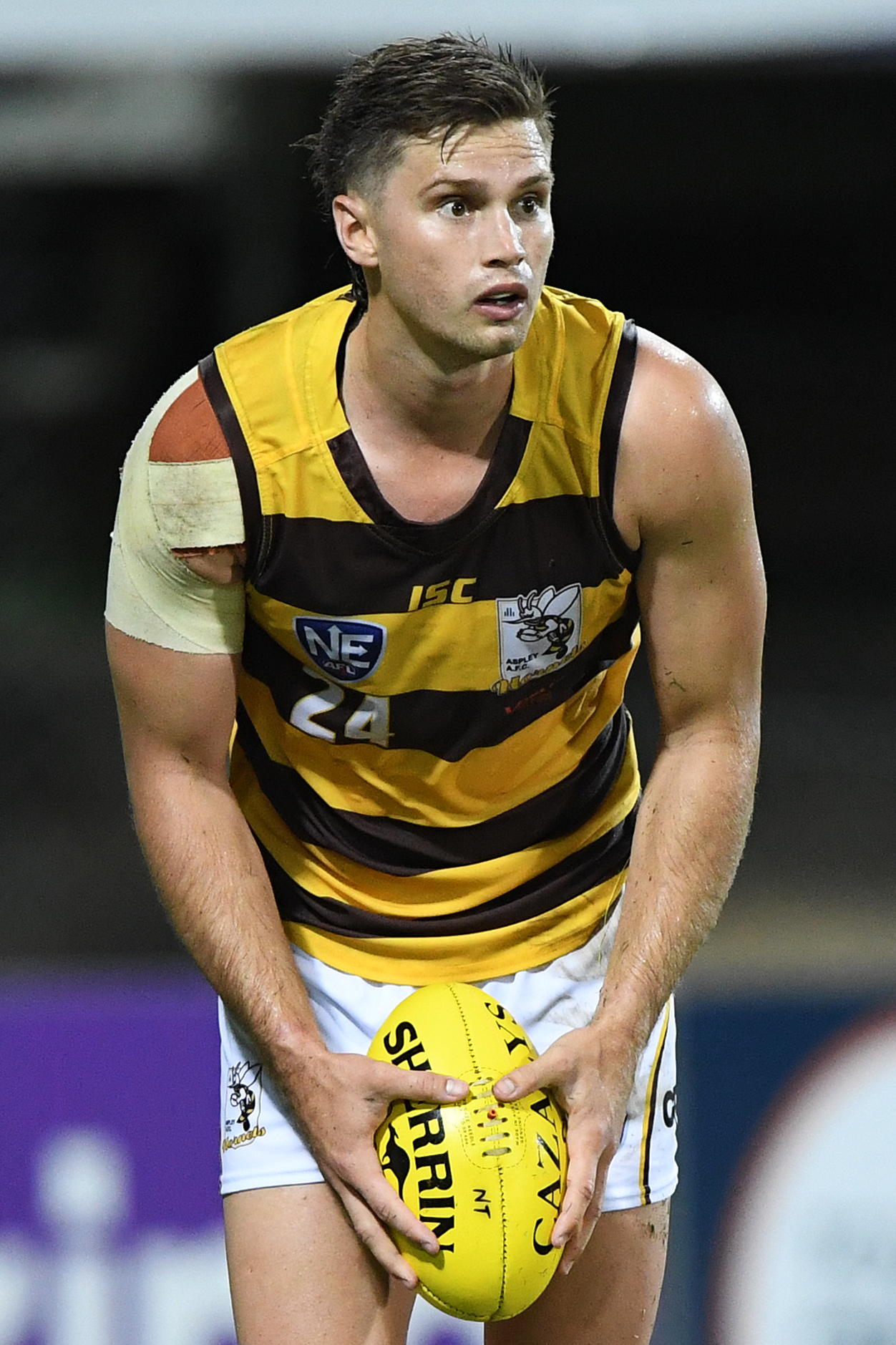 Liam Dawson of Aspley during the 2019 NEAFL round 7 match between NT Thunder and Aspley at TIO Stadium on Saturday, 18 May 2019 in Darwin, Northern Territory.